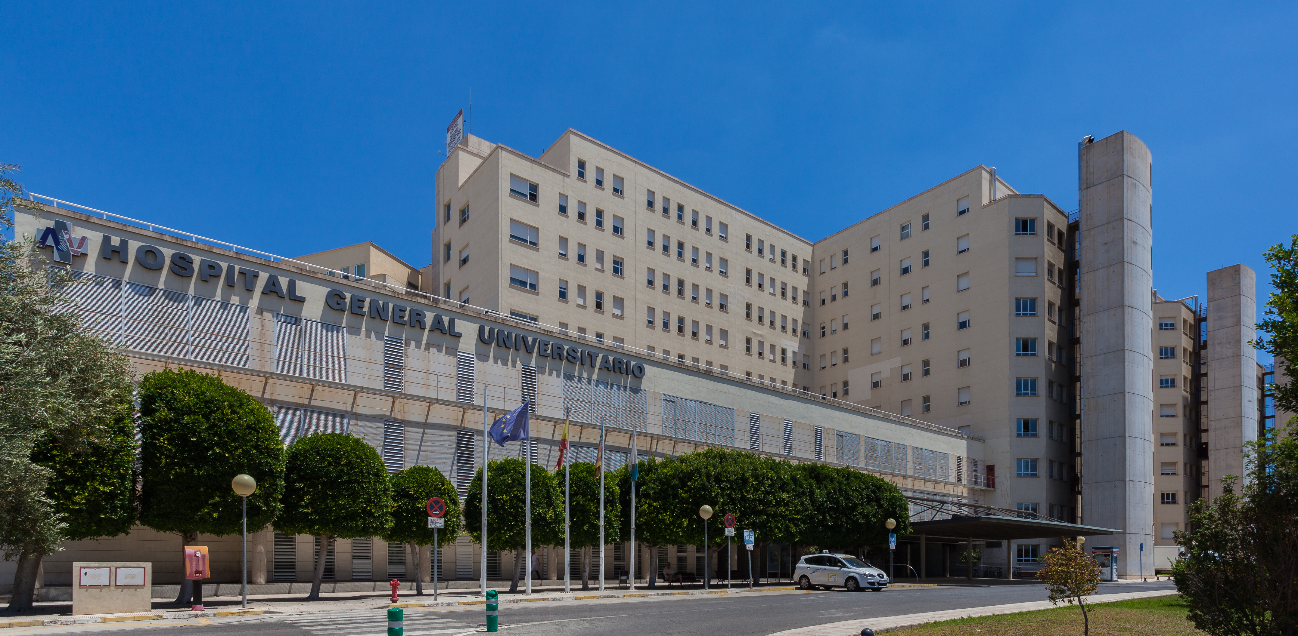 General University Hospital of Alicante, Spain